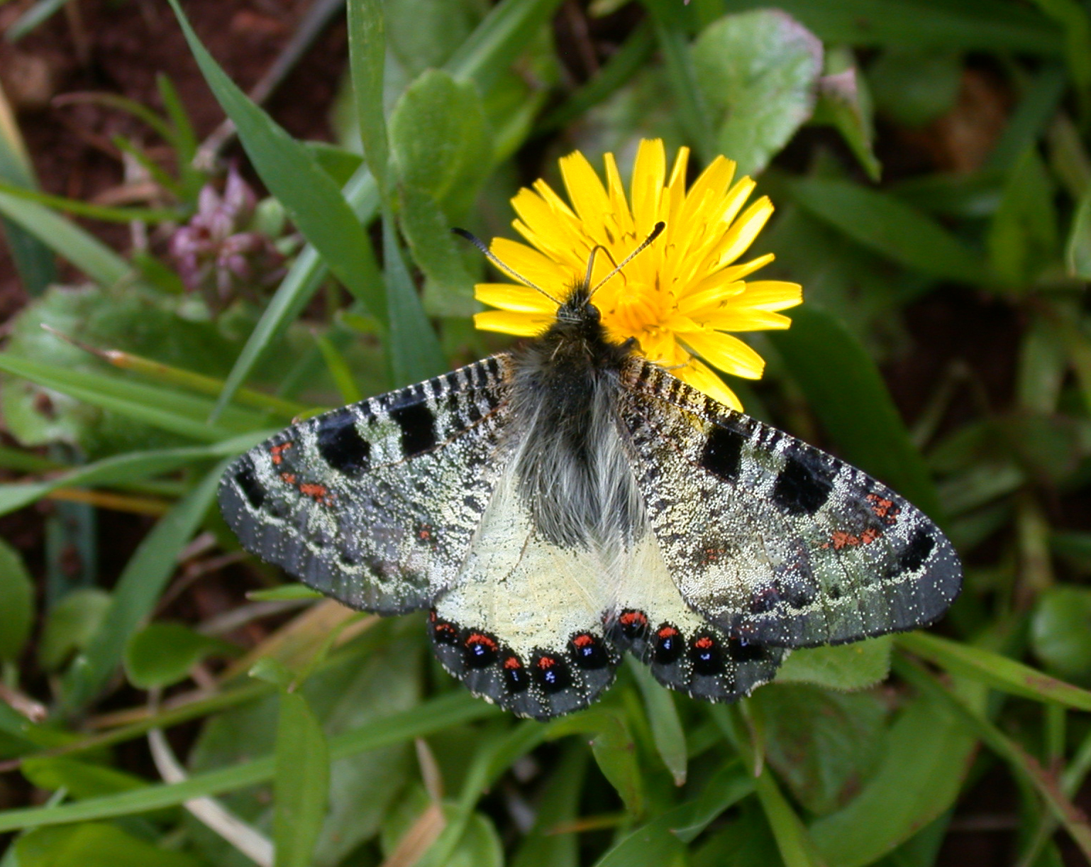 Archon apollinus bellargus Staudinger, 1891 (צבעוני שקוף), Upper Galilee, Israel, February 2007.